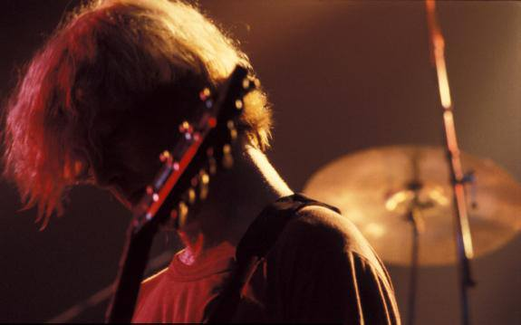 Jhon Mcgeoch